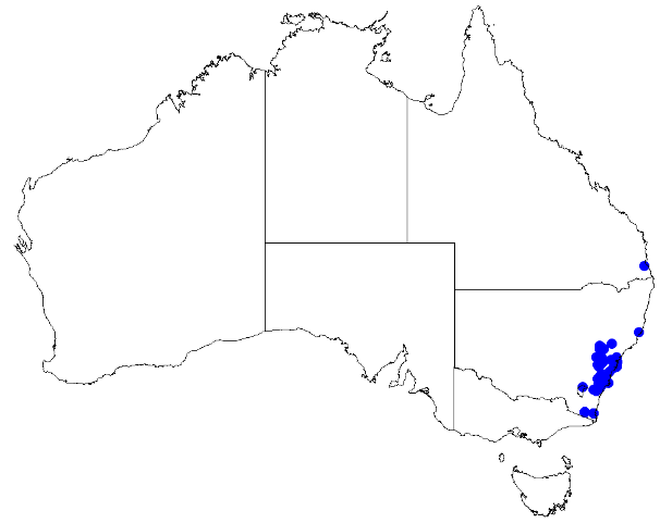 Boronia rigens downloaded from Australasian Virtual Herbarium 10 April 2019 using This download included all the environmental overlay fields and ALA's data checking fields including "cultivated / escapee", "outside expert range for species", "latitude is negated", "coordinates are transposed", "taxon misidentified", "habitat incorrect for species", and "suspected outlier" (711 fields). Deleting occurrences for which any of the above were true, 46 specimens with coordinates were deleted.